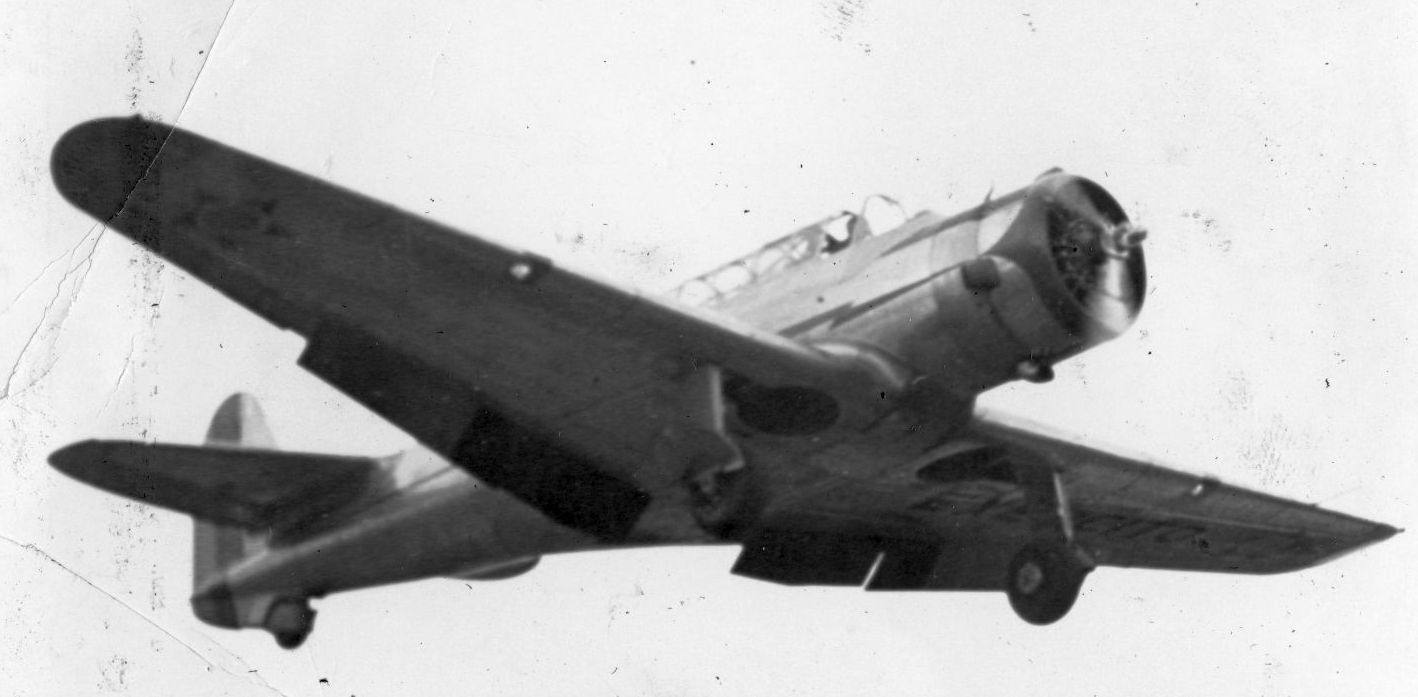 Images from an Album (AL-61A) which belonged to Mr. Lowry and was donated to the Leisure World Aerospace Club. Repository: San Diego Air and Space Museum Archive